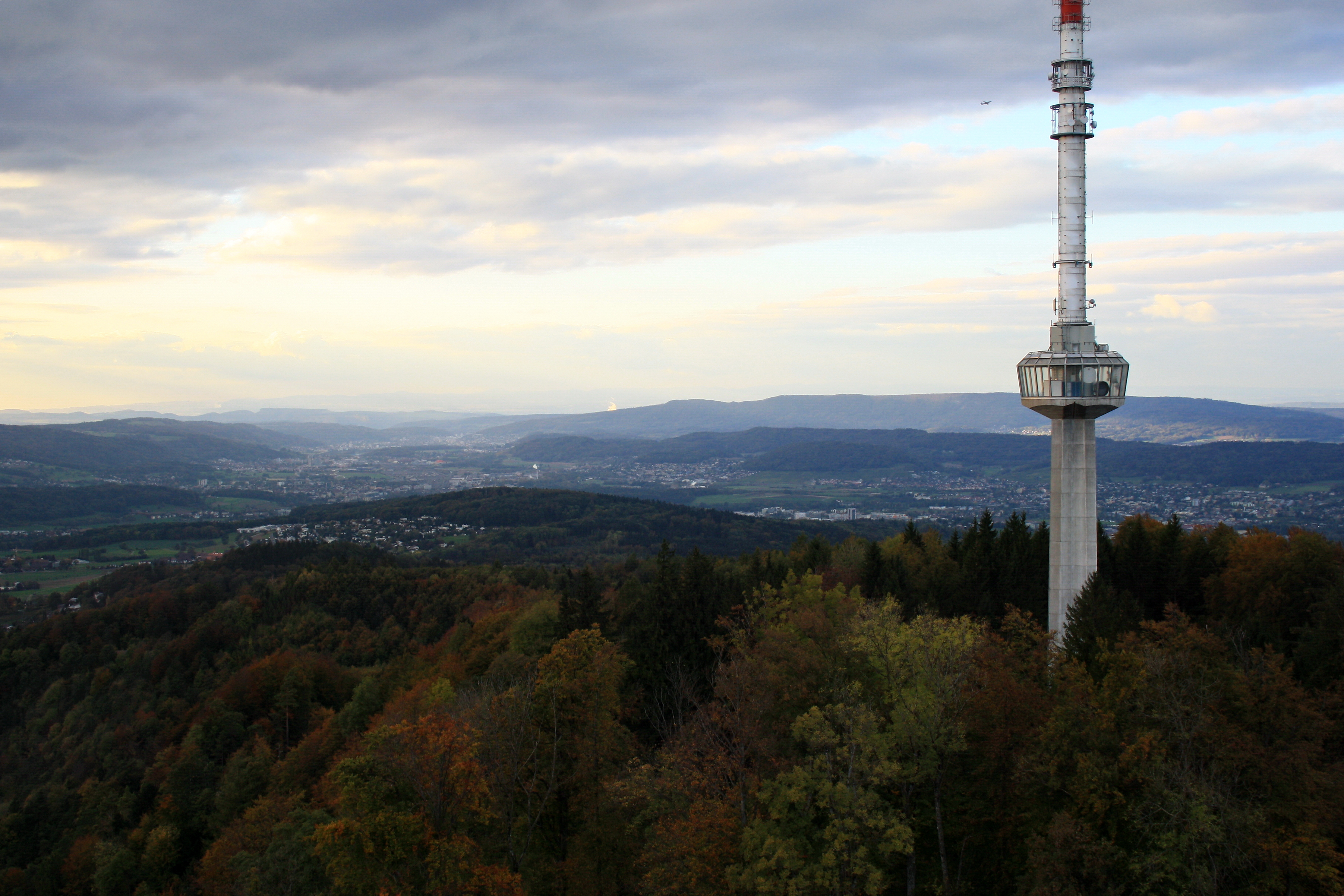 Swisscom TV-tower on Uetliberg, as seen from Aussichtsturm, Limmattal in the background.